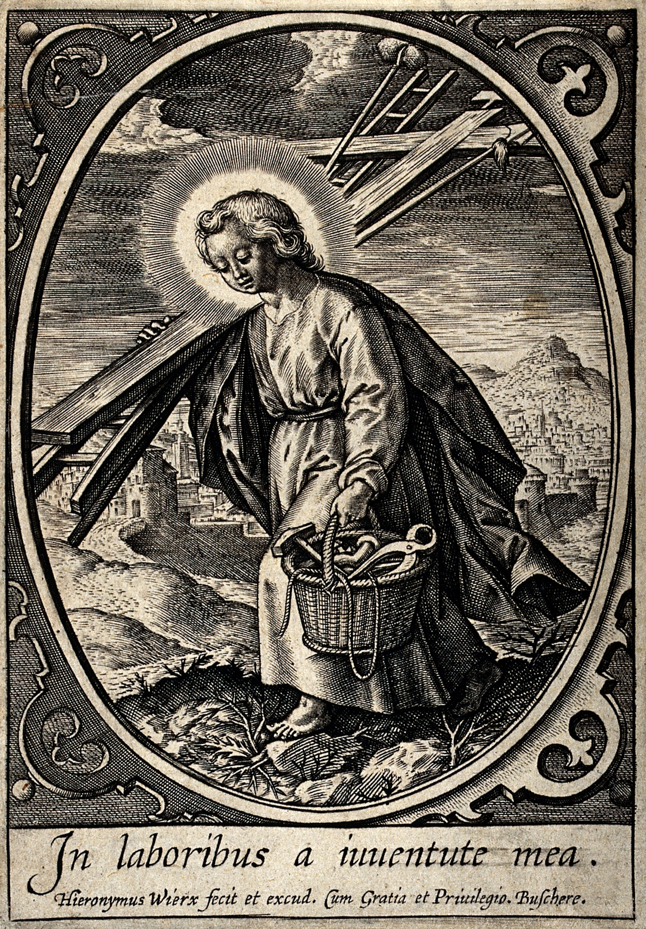 The young Christ carrying the Instruments of Passion. Etching by H. Wierx. Iconographic Collections Keywords: Hieronymus Wierix